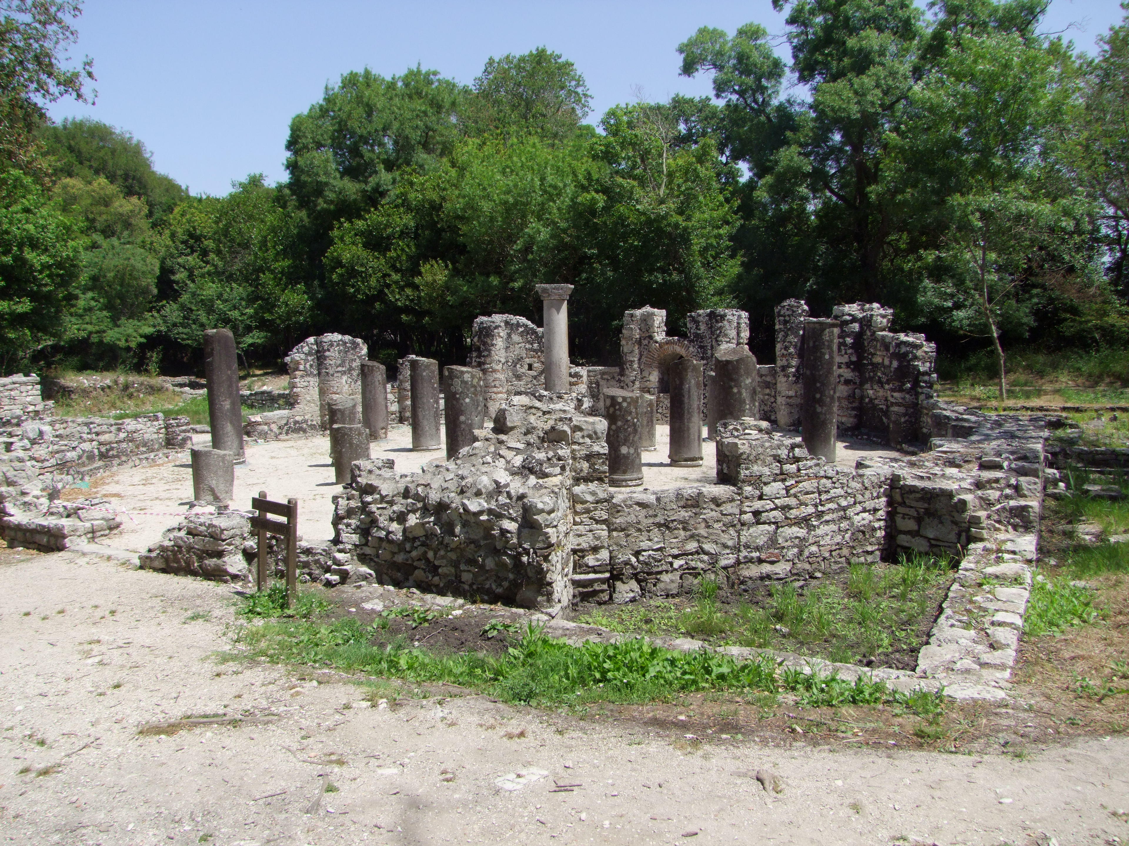 Butrint Baptistery